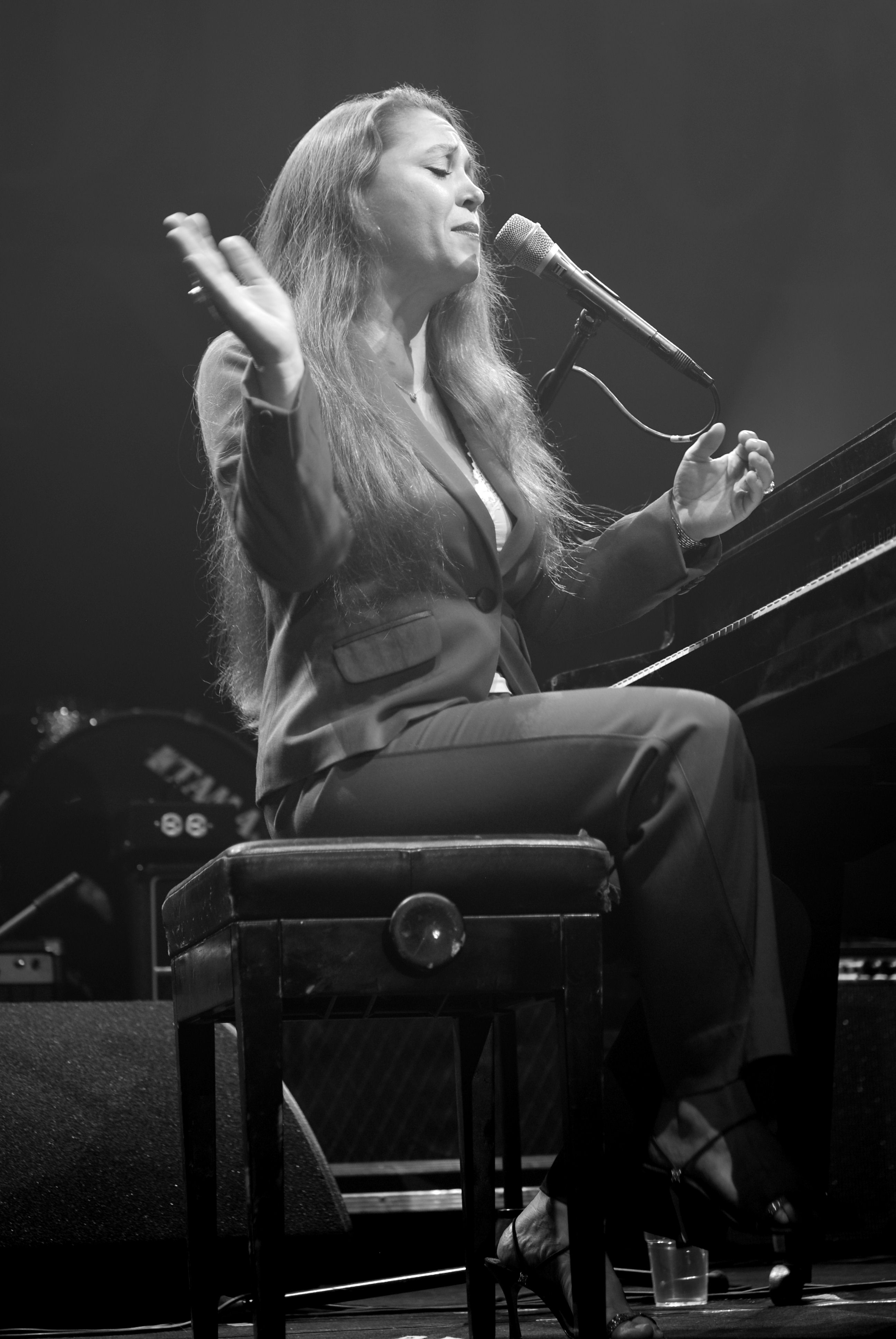 Taking of this photo was in cooperation with Rawa Blues (homepage)